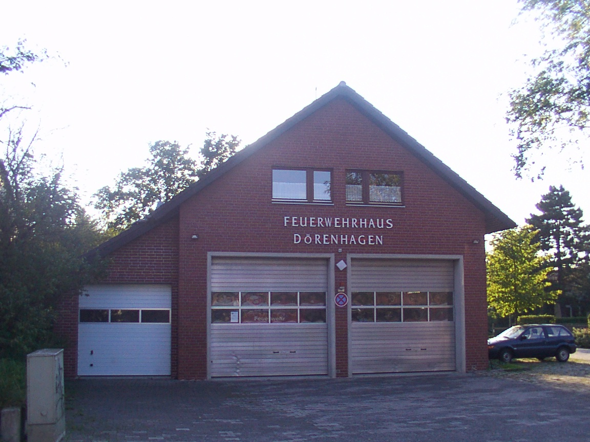 Borchen: fire station in Dörenhagen